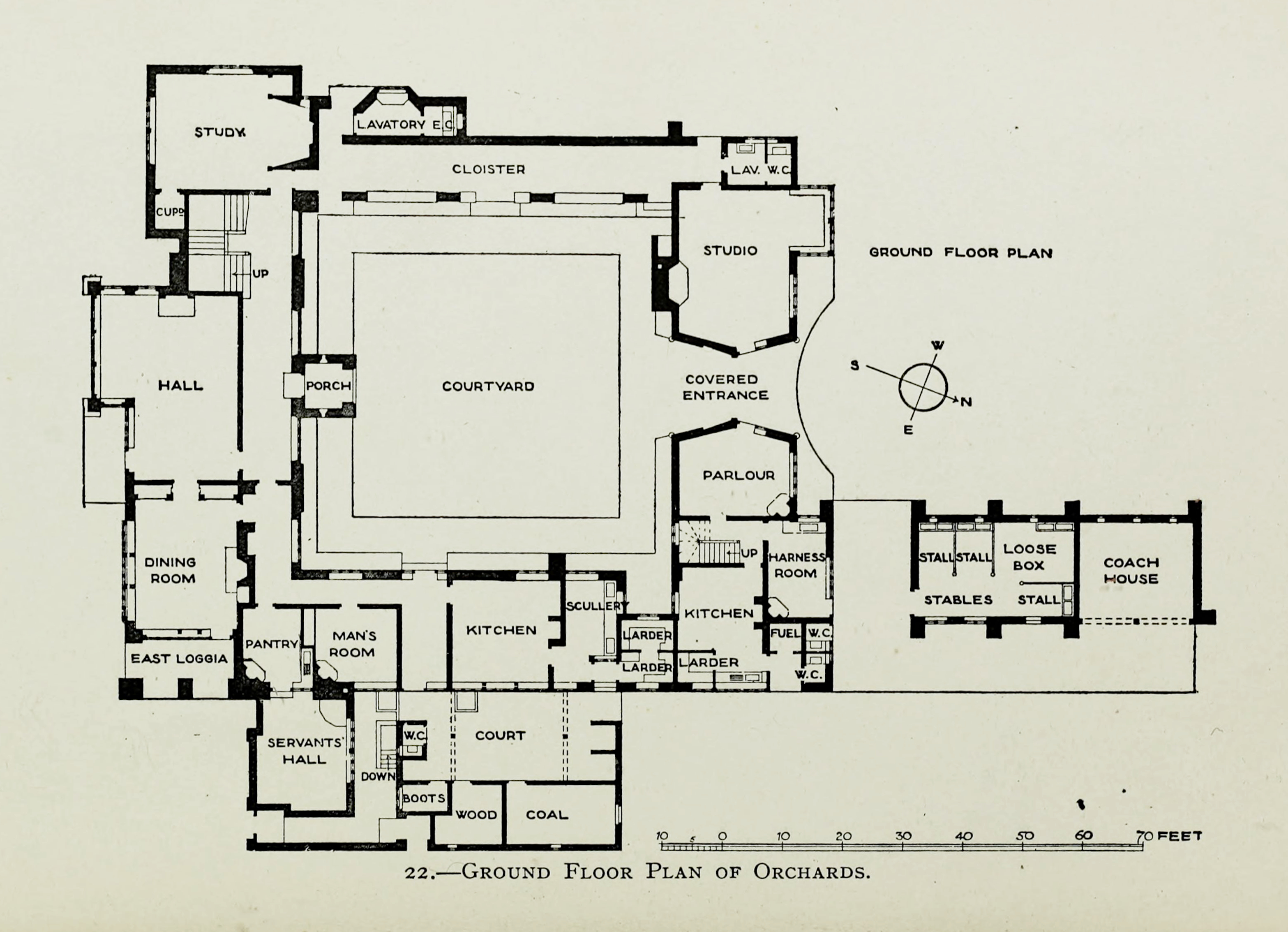 Illustration from Lutyens houses and gardens (1921) featuring Orchards in Surrey.